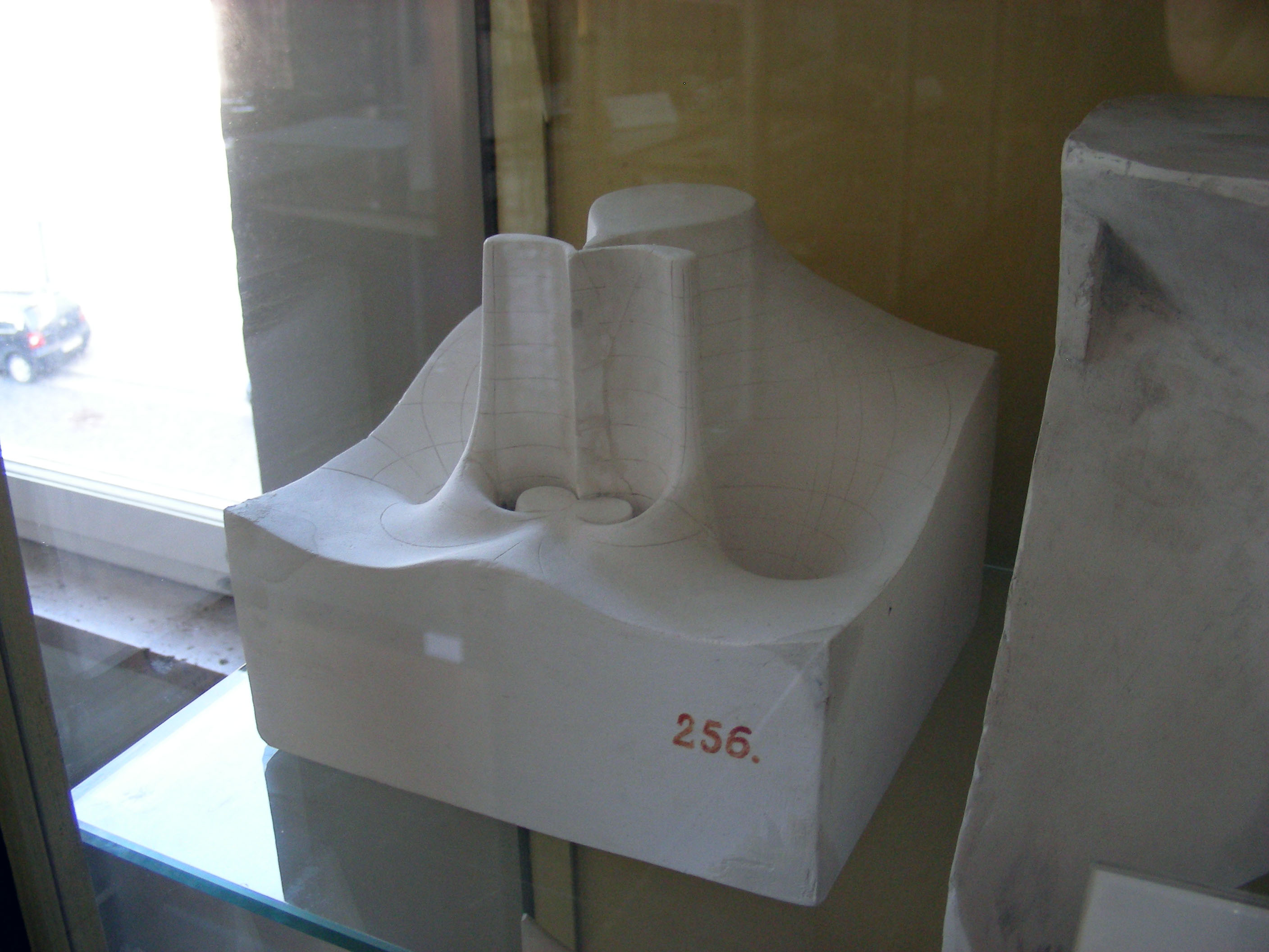 Model in the collection of mathematical models and instruments, Georg-August-Universität Göttingen Göttingen. see also for more information on the models